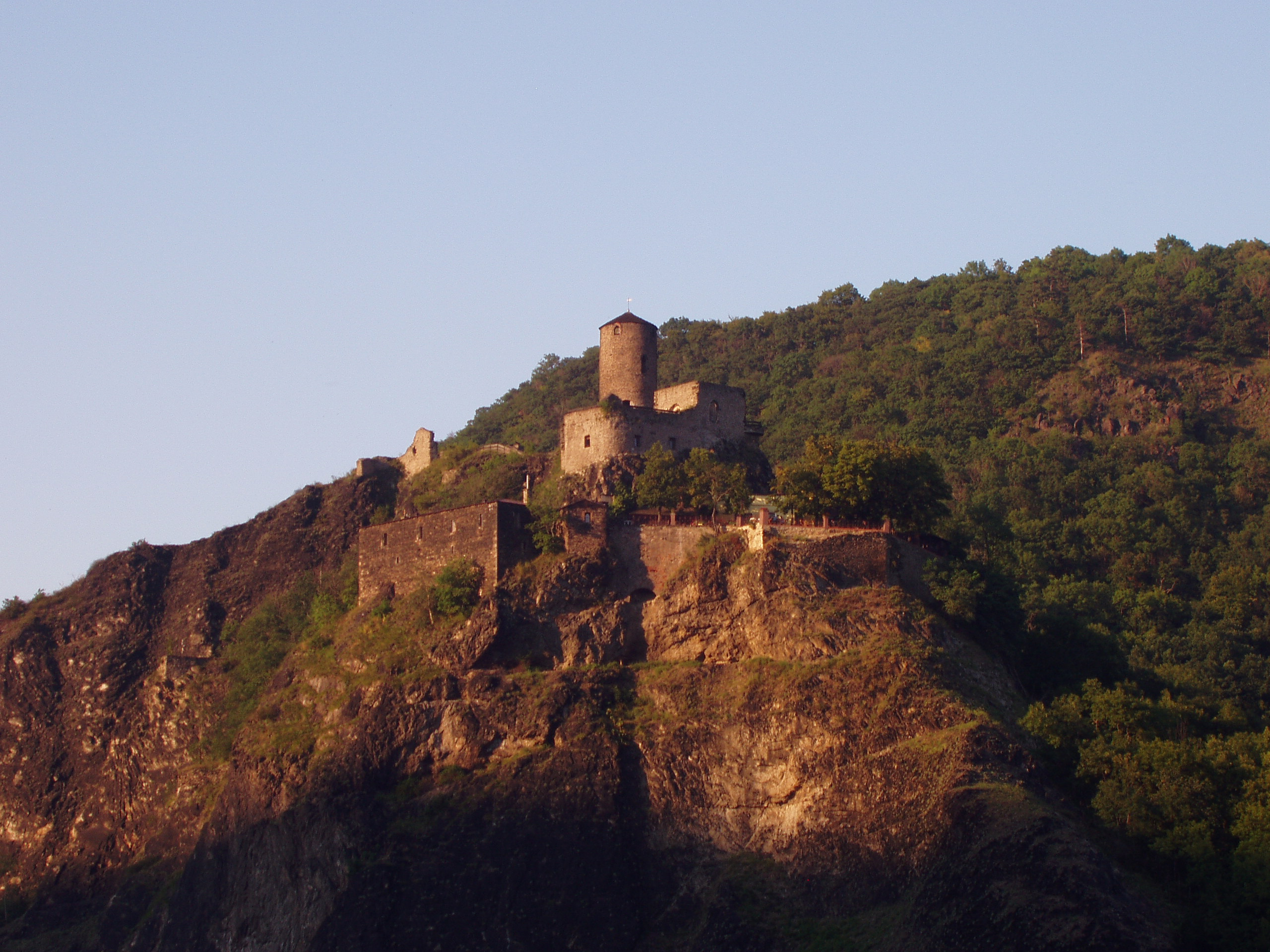 Střekov castle is situated in the city of Ústí nad Labem in the Czech Republic. It was built at the beginning of the 14th century on a basalt rock above the river Labe (Elbe).